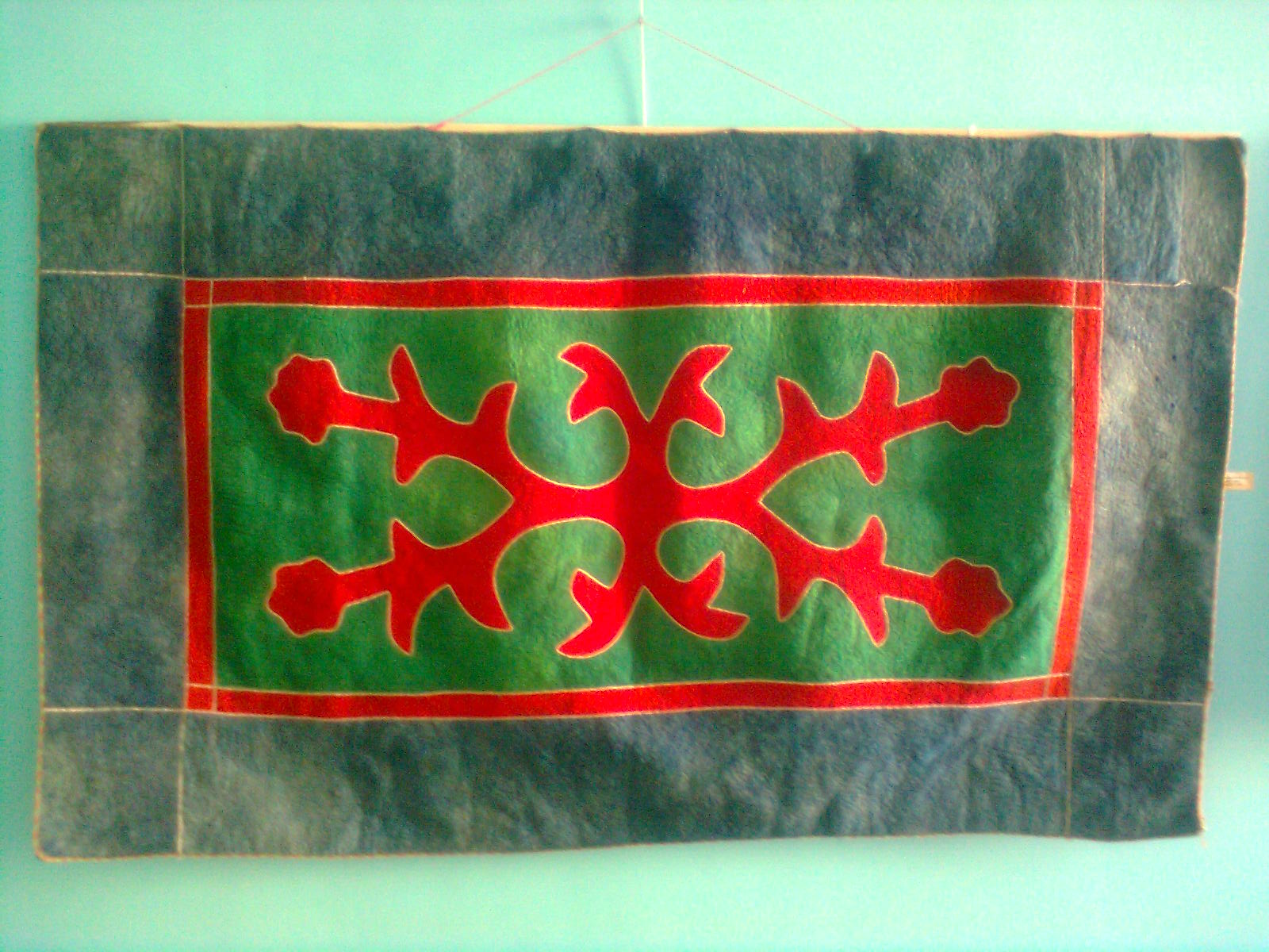 Istang from collection of the Chechen National Museum